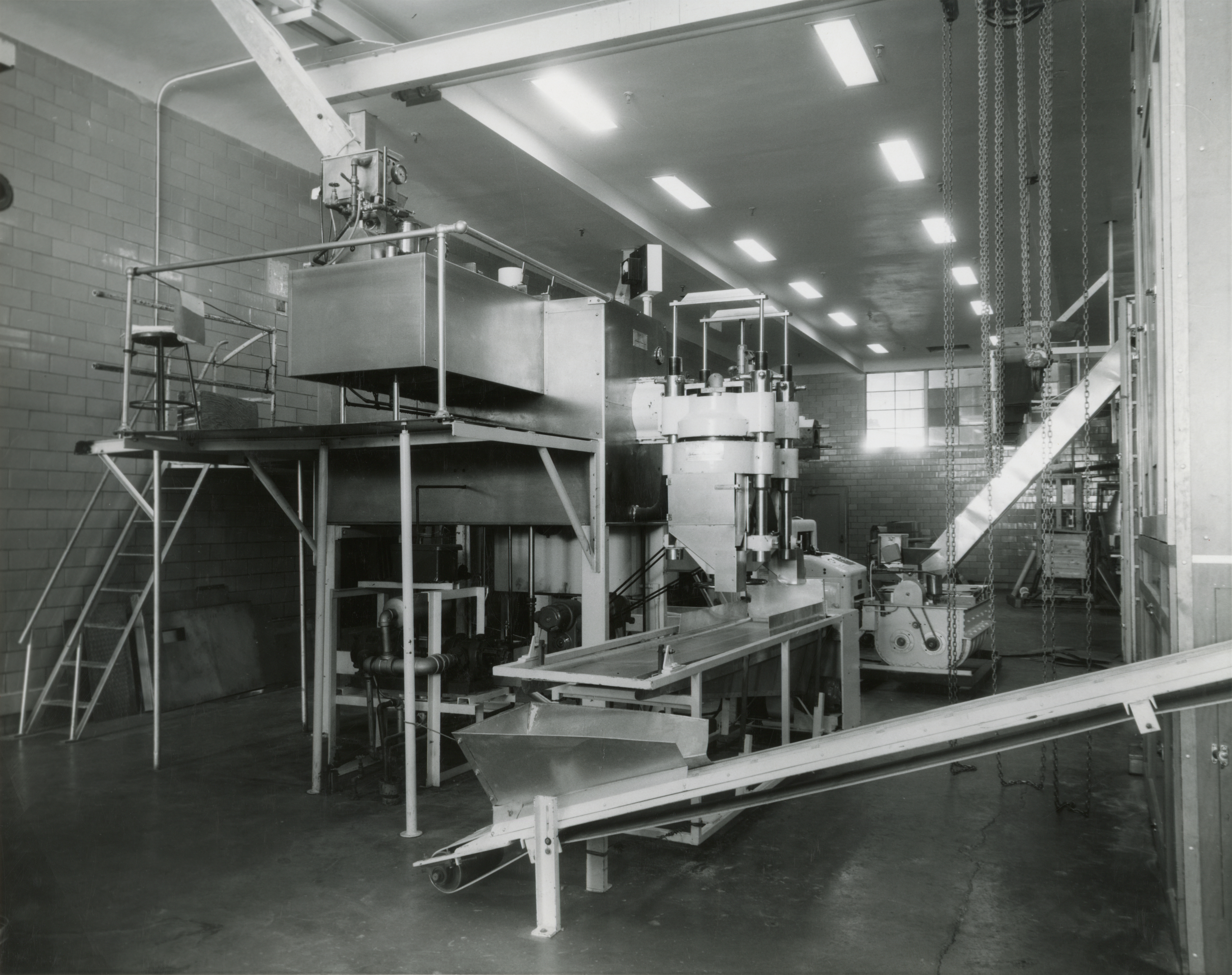 DEMACO short goods pasta extruder at V. La Rosa and Sons Macaroni Company, 40 Jacksonville Road, Warminster, Pennsylvania. This pasta extruder has two short goods heads and cutting devices. This extruder was built in the 1960s.